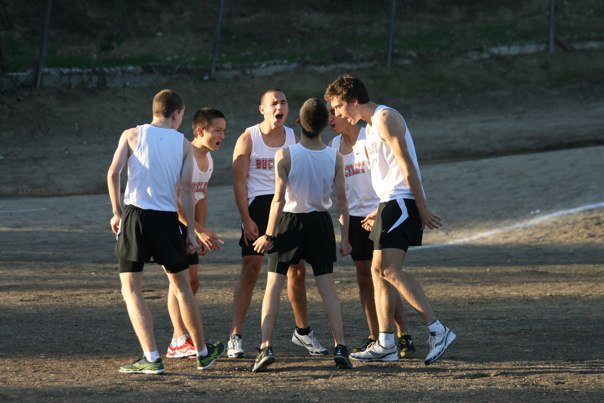 The team gets ready in a huddle just prior to racing a 5k at L.A. Pierce College.